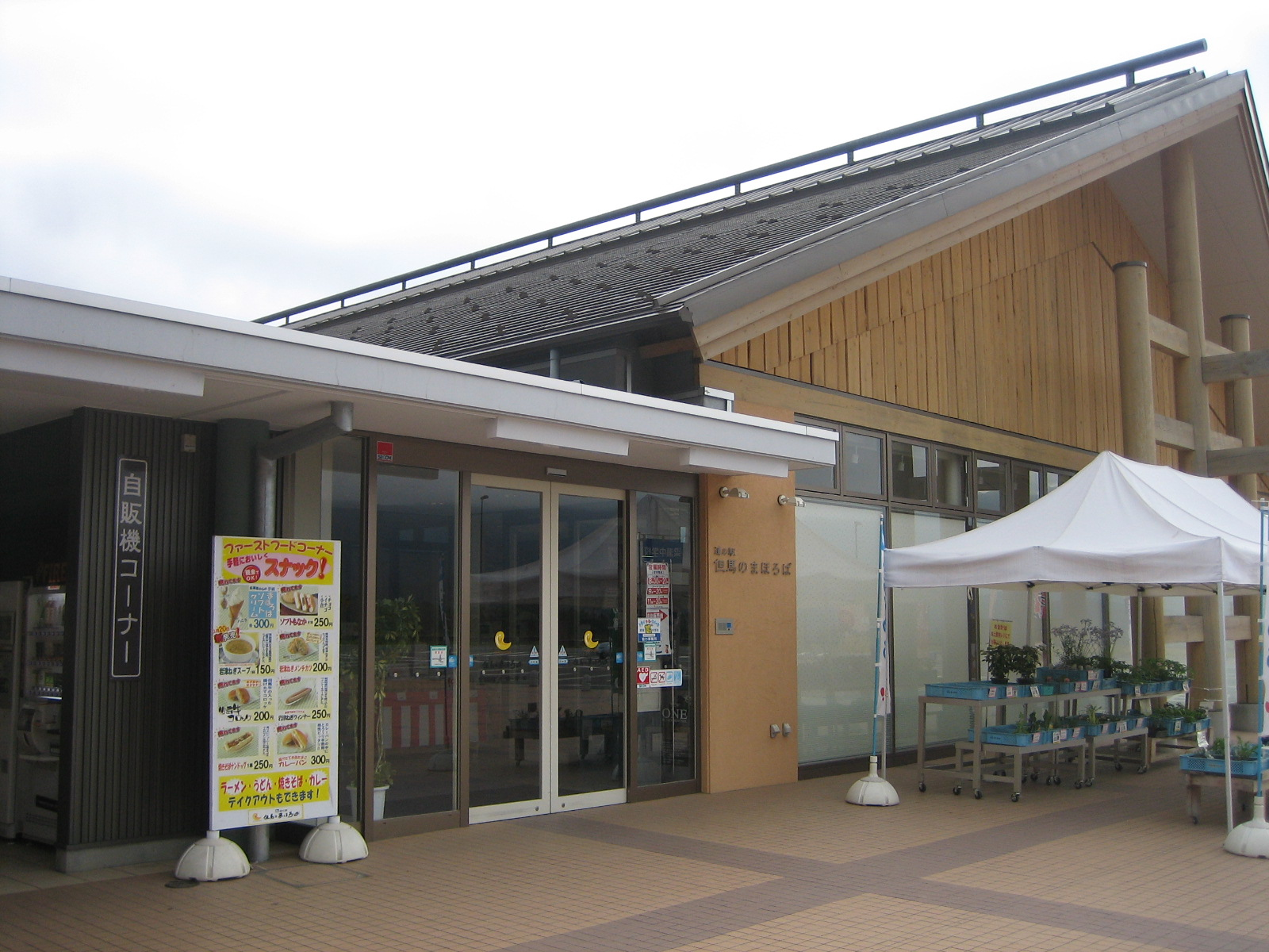 Michinoeki Tajima-no-mahoroba (entrance)